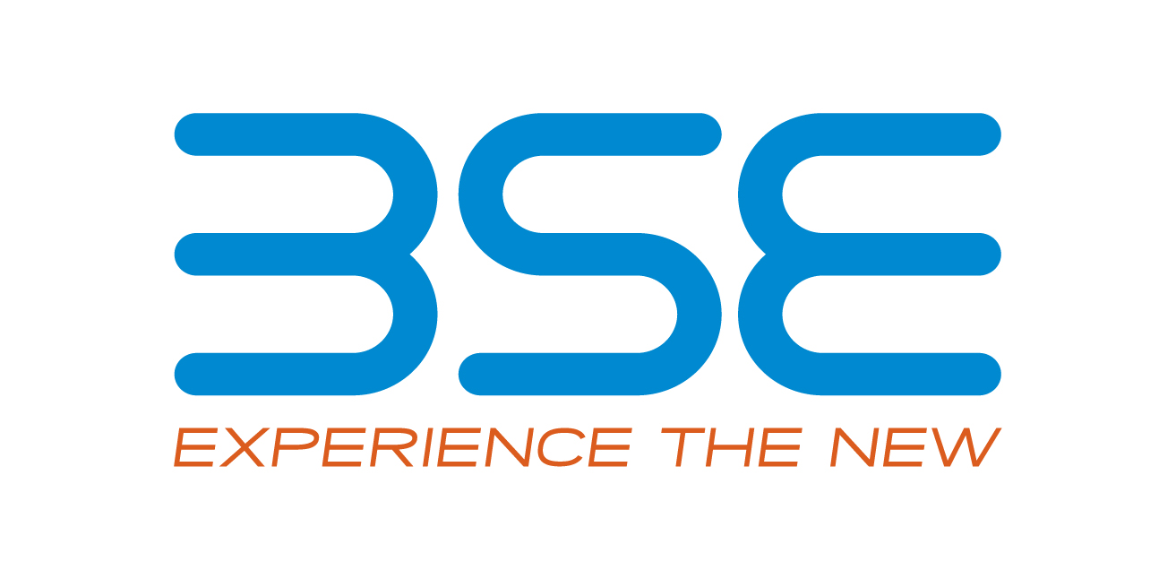 This is the new updated logo of BSE Ltd.